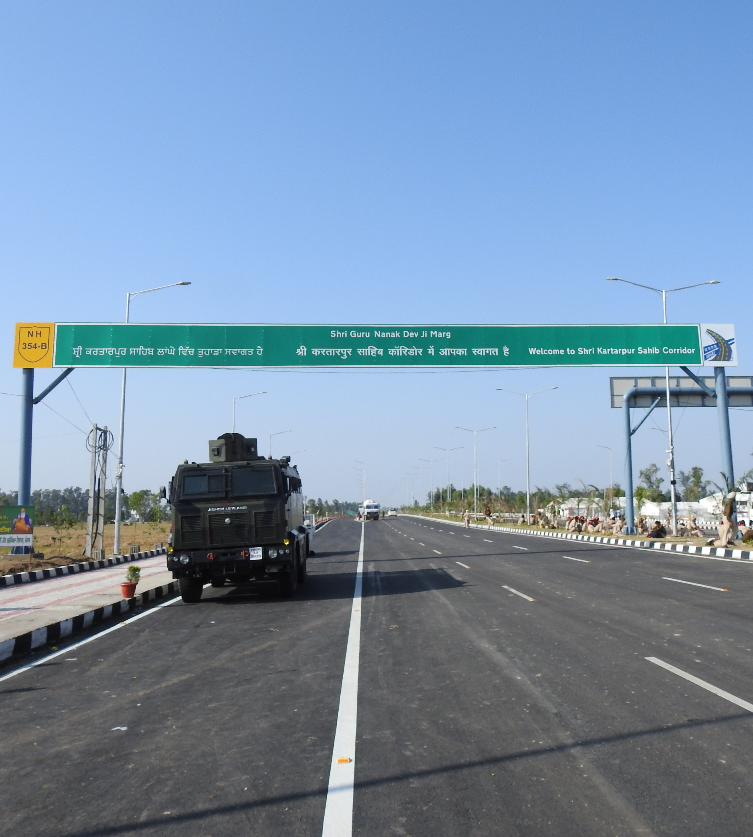 The Kartarpur Corridor is a border corridor between Pakistan and India integrating the Sikh shrines of Dera Baba Nanak Sahib ,located in Punjab, India and Gurdwara Darbar Sahib in Punjab, Pakistan. The corridor is intended to allow religious devotees from India to visit the Gurdwara in Kartarpur 4.7 kilometres from the Pakistan-India border, without a visa. The artistic creation visible in image is done by the well known Punjabi language poet cum painter Swarnjit Singh Savi.The image presents the concepts spirtual symbols and teachings of Shri Guru Nanak Dev ji .Ik Onkar (Gurmukhiː੧ਓ) on the top of the image is the symbol that represents the 'One' supreme reality and is a central tenet of Sikh religious philosophy. Ik Onkar has a prominent position at the head of the Mool Mantar (Main chant) and the opening words of the Sri Guru Granth Sahib the holy book of Sikhs .Golden matelic words visible on the centre of image are part of the ' Mool Mantar . Diagonally displayed musical instrument on the image is the Rabab which was played by Guru Nanak's beloved companion Bhai Mardana for more than 27 years on his travels around the world.